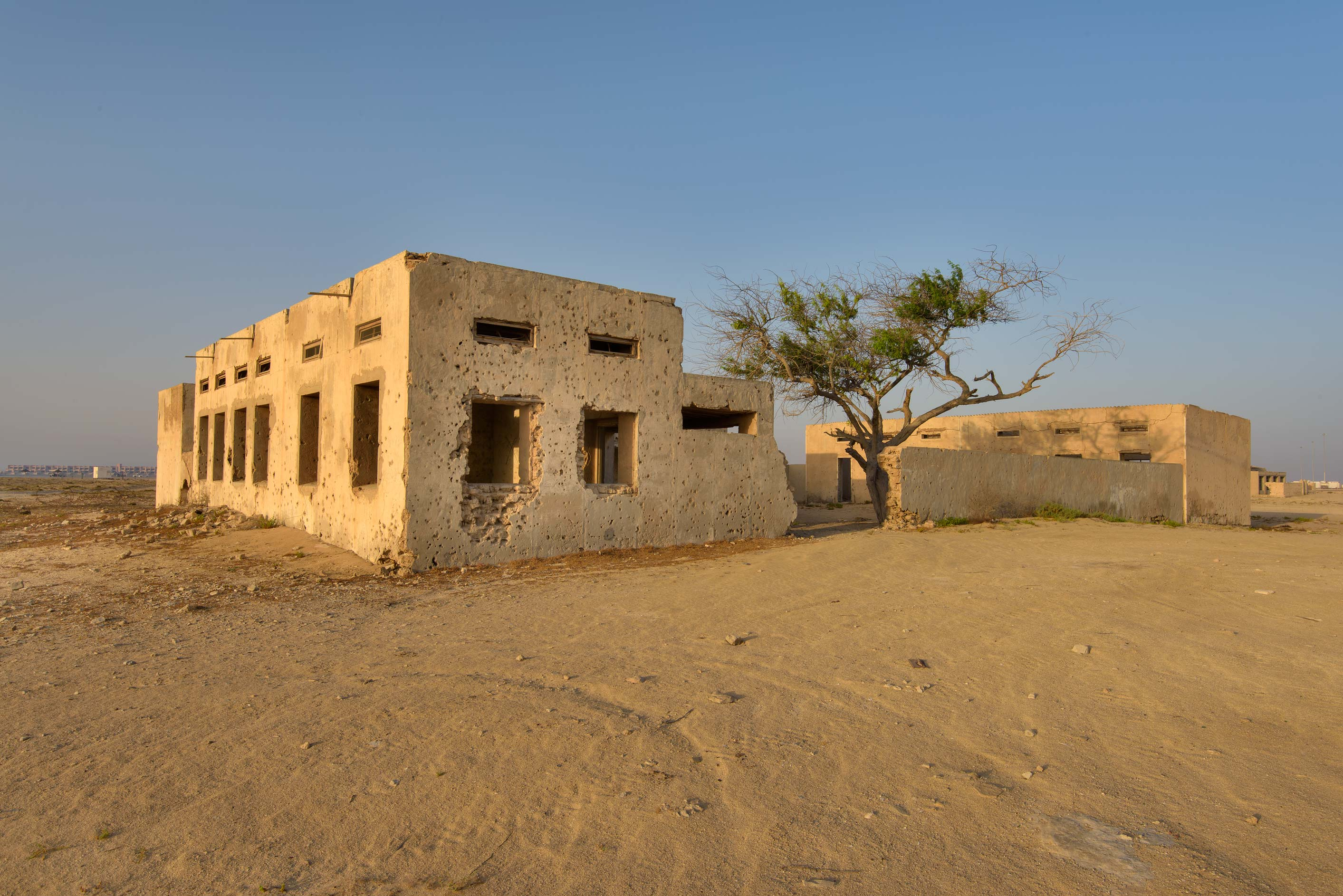 A ruined school in Al Ghariyah, northern Qatar.